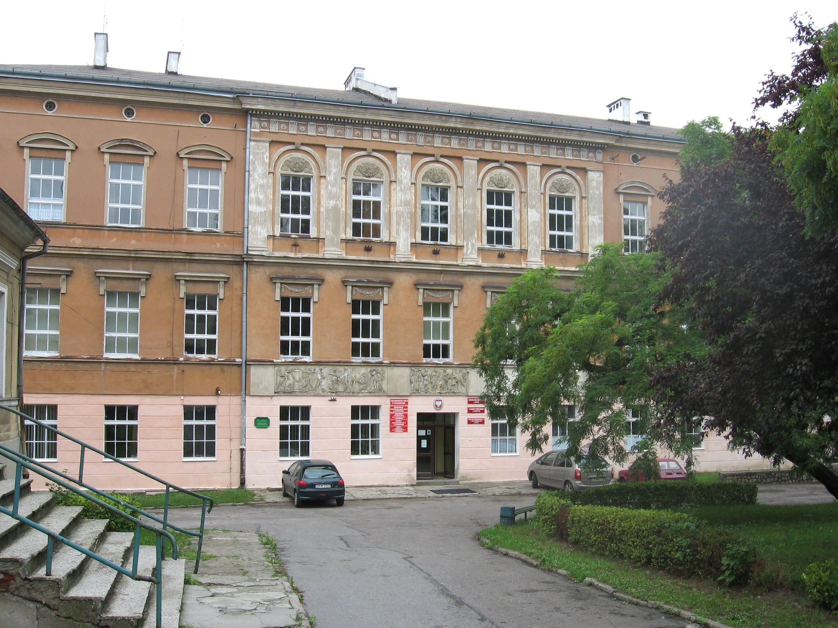 Kwidzyn, Fermor's palace, built in 1759-62, extended and rebuild in 18th and 19th century for seat of Regierungsbezirk